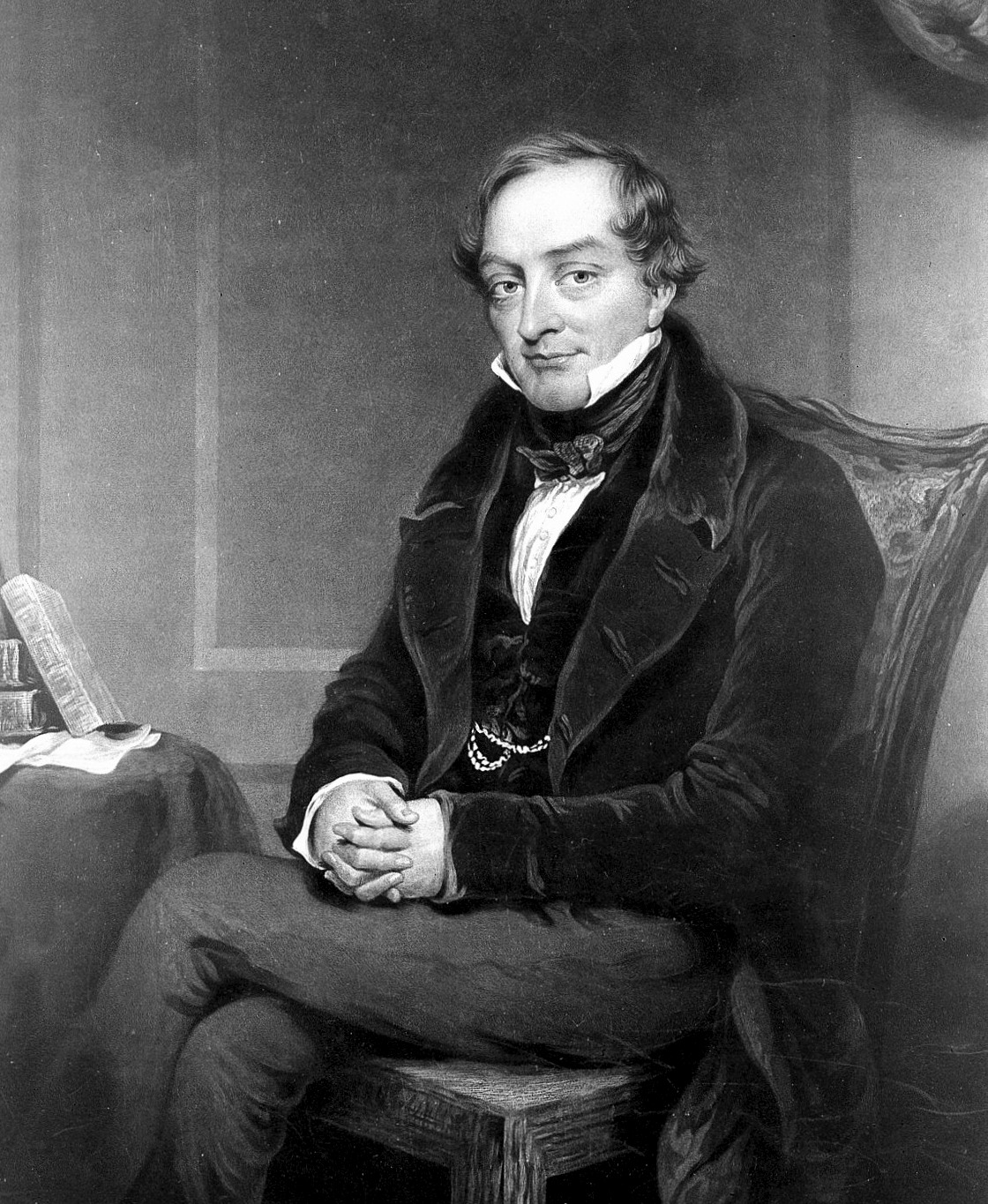 Photograph of a portrait of William Lawrence (biologist)